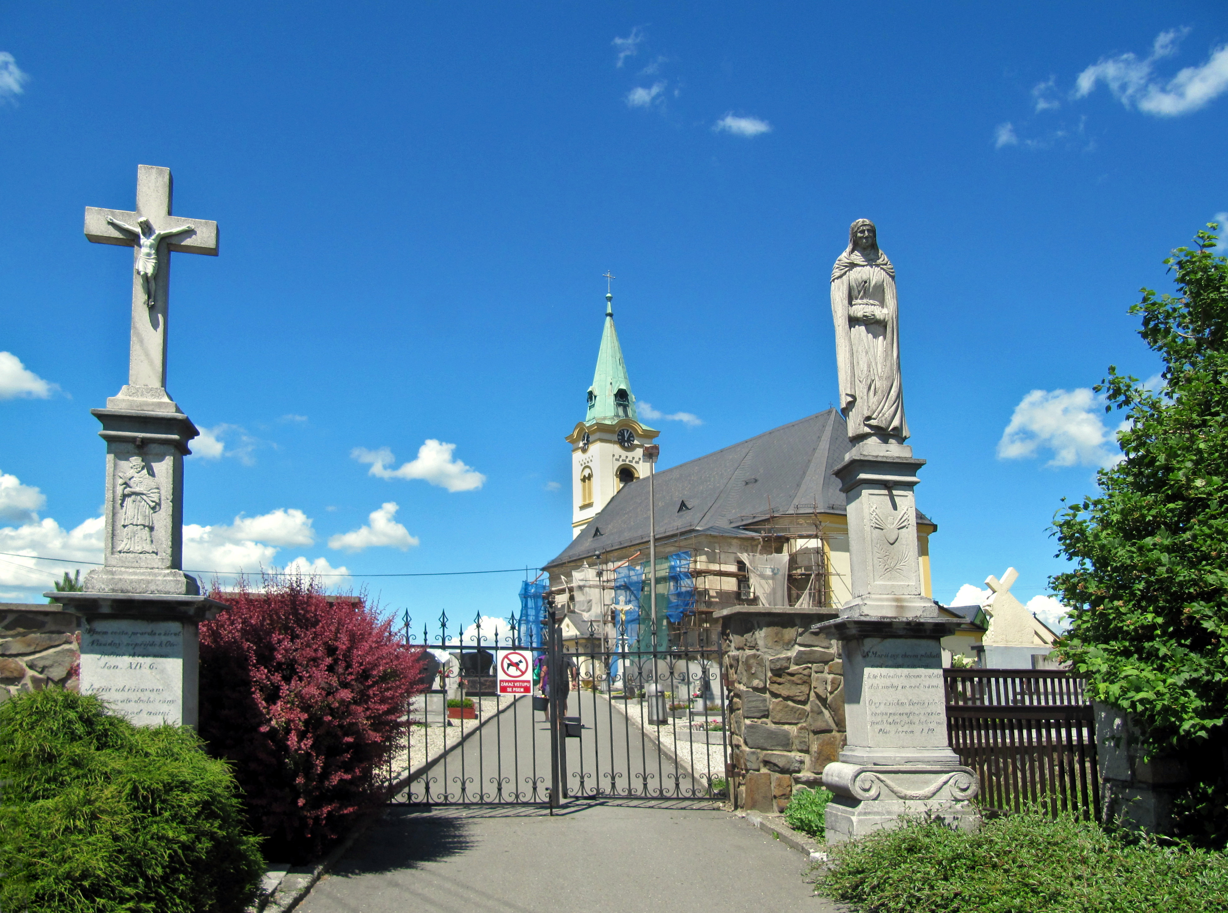 Pustá Polom, Opava District, Czech Republic. Church of Saint Martin.